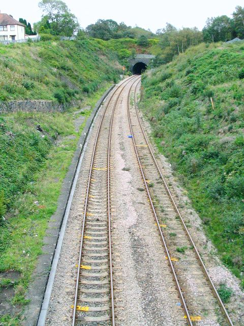 Former Cockett railway station The line from Llanelli to Swansea is very much still in use but Cockett station has almost disappeared. This is the view looking west from the road bridge on station road towards Swansea central. The kerbstones on the platform edge can still be seen running from the bottom left of shot nearly all the way up to Cockett tunnel. Most of the platform and its access are now grassed over but the path down to the platform can still be made out coming in on the left side. Cockett tunnel, which is also pictured, collapsed in 1899 but survived the Luftwaffe's heavy bombing in world war two. The collapse was thought to be due to mine work below it.